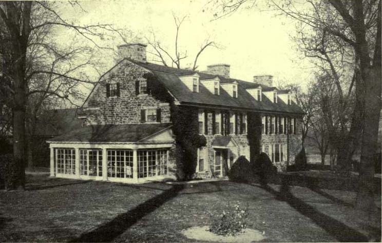 "Pencoyd" (T. Williams Roberts House), City Avenue, Lower Merion Township, Montgomery County, Pennsylvania (from the southwest). Louis Carter Baker, Jr., restoration architect.